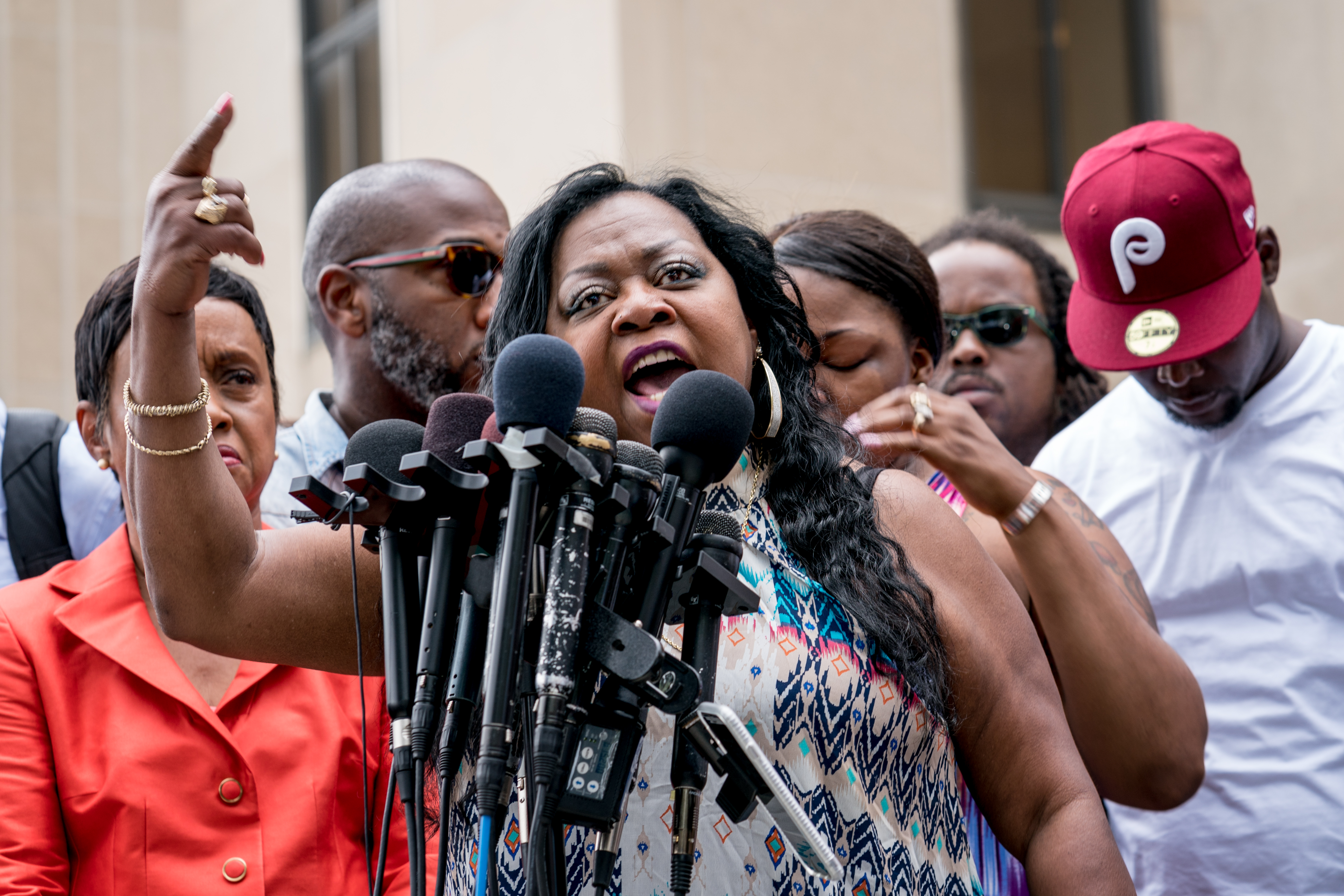 Valerie Castile (Philando's mother) speaking outside the Ramsey County Courthouse in St Paul, MN after a not guilty verdict was reached in the trial of Officer Jeronimo Yanez for the killing of Philando Castile on July 6, 2016.